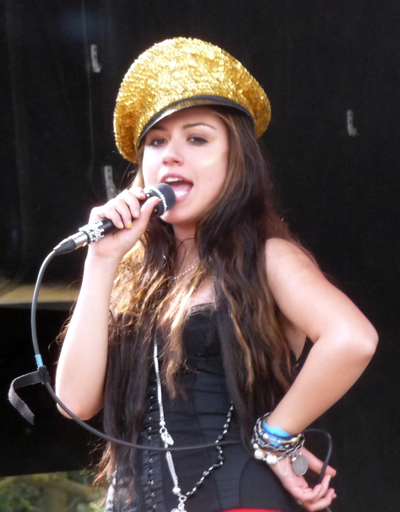 Cilmi performing live July 4, 2009